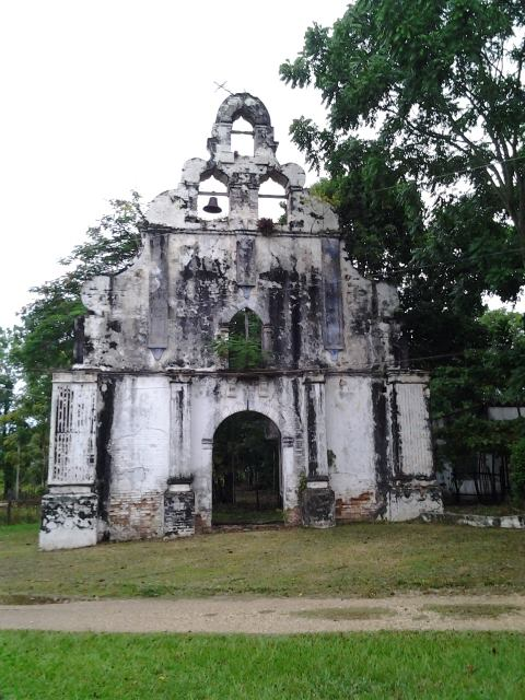 antigua iglesia situada en la ex hacienda